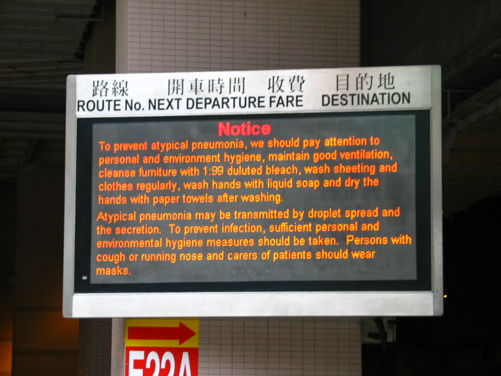 bus information display screen @ Po Lam Bus Terminus